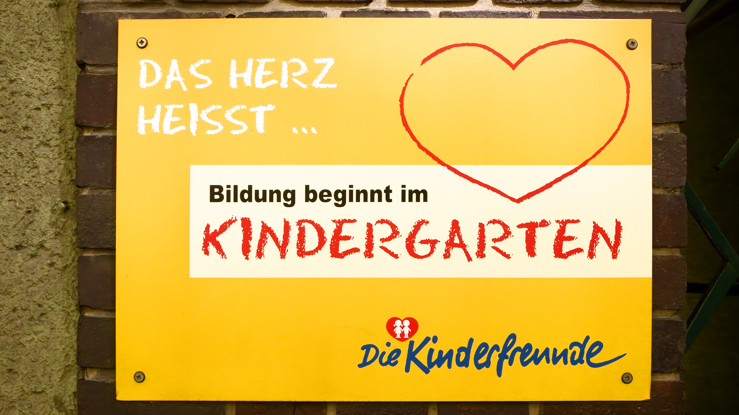 Residential Building Georg-Schmiedel-Hof in Vienna Brigittenau